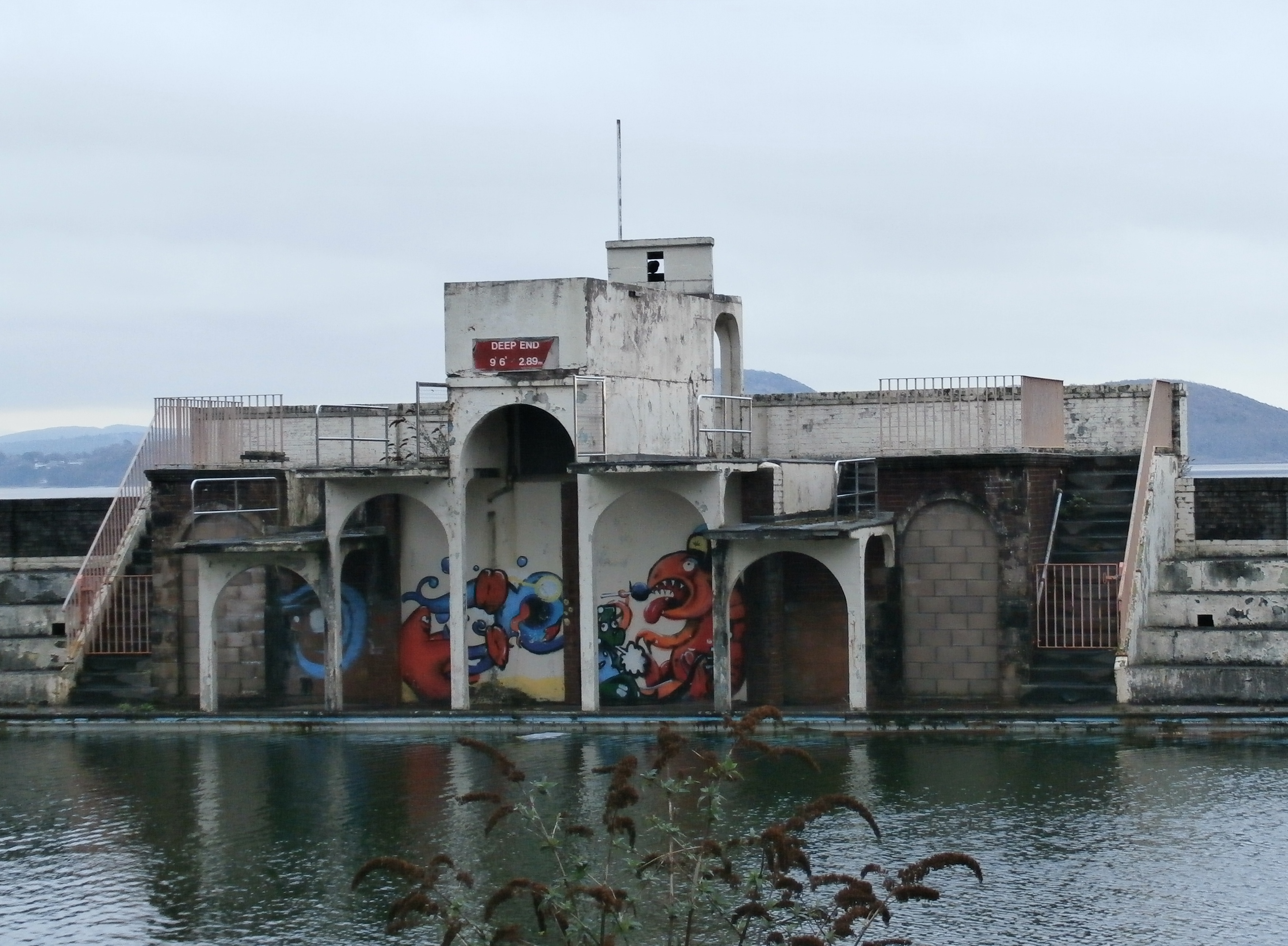 Photograph of the Lido. Grange-over-Sands, Cumbria, England